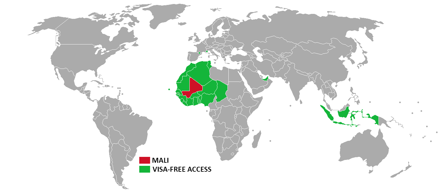 Visa policy of Mali Mali Visa-free access